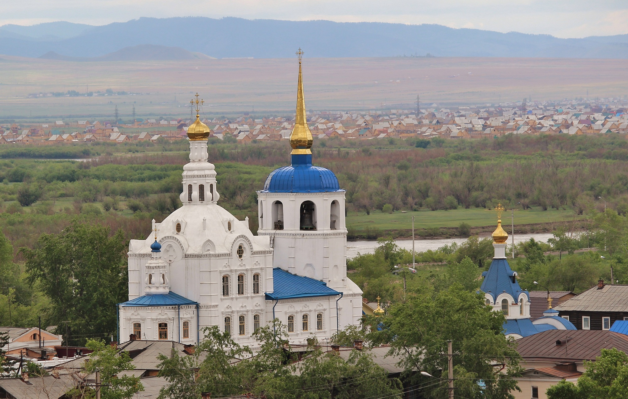 Odigitrievsky Cathedral in Ulan-Ude. Buryatia, Siberia